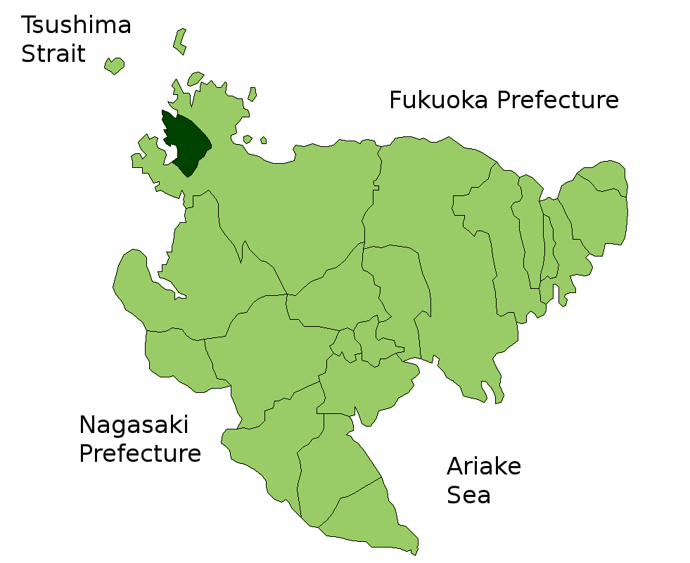 Location Map of Genkai in Saga Prefecture, Japan